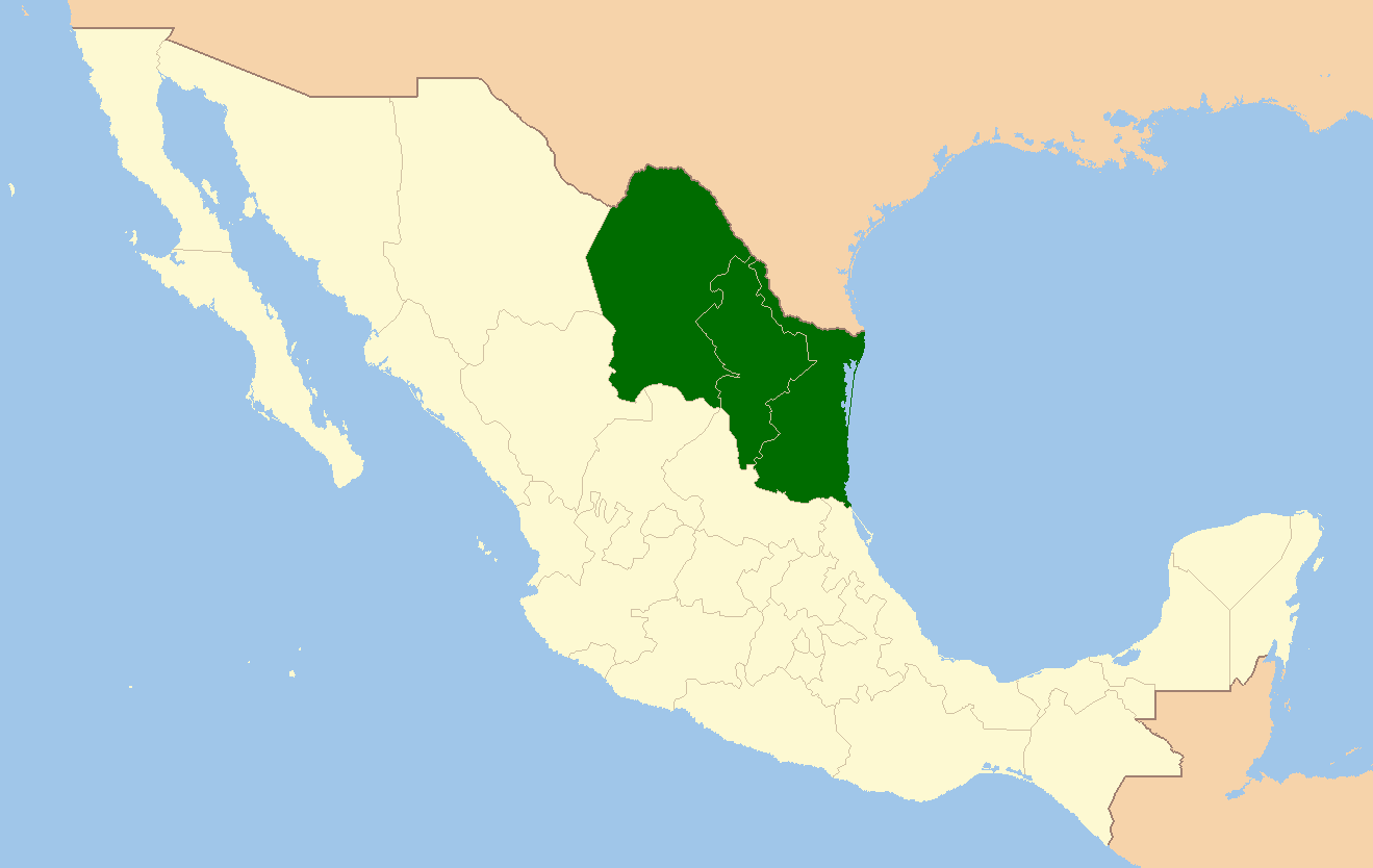 Northeastern Mexico